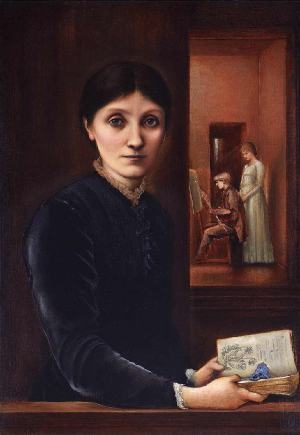 Georgiana Burne-Jones, their children Margaret and Philip in the background